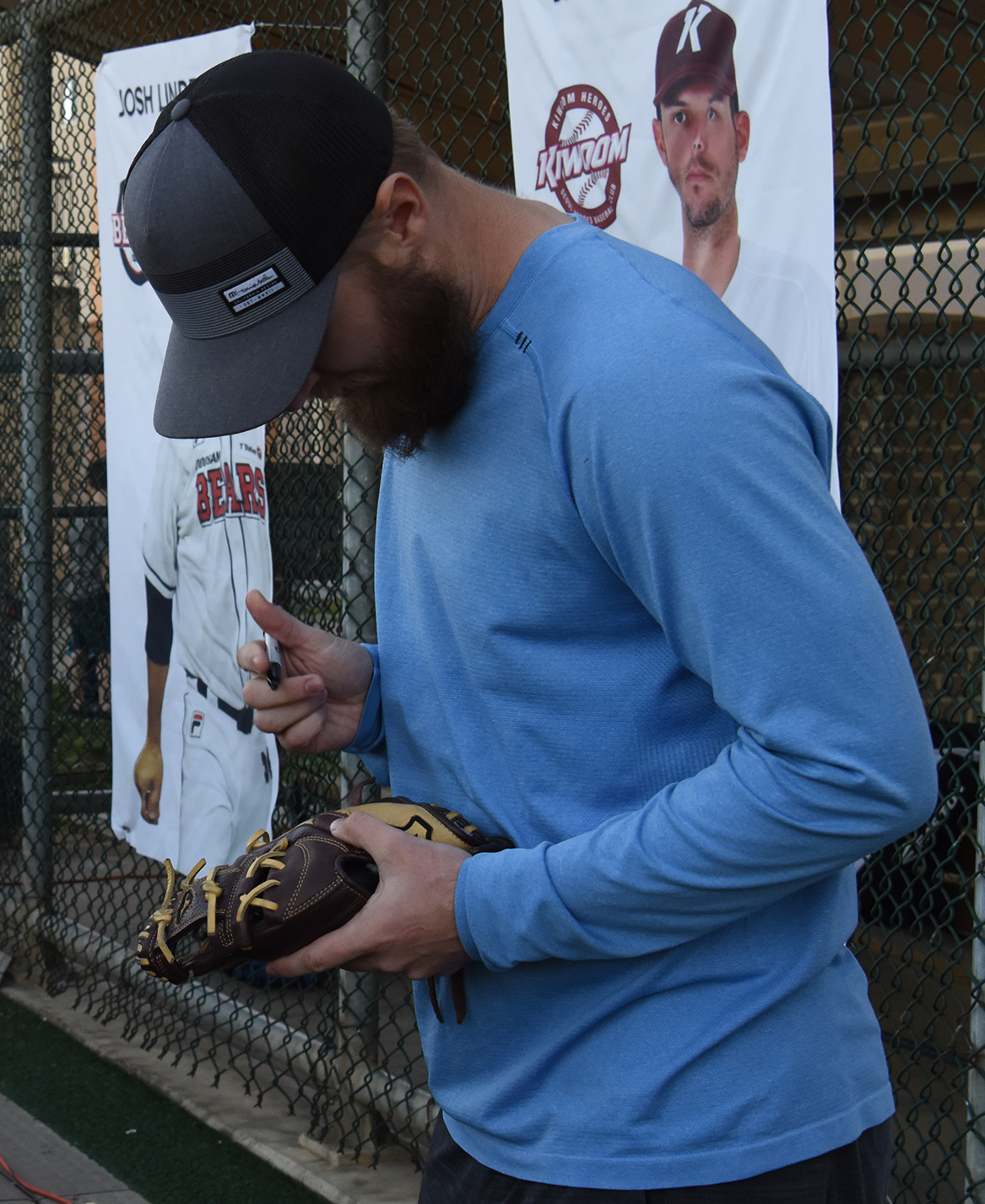 Eric Jokisch, a Korean Baseball Organization (KBO) player signs a kid’s glove at Osan Air Base, ROK, May 20, 2019. American players form the KBO visited the base to host a baseball camp for youth baseball players here. (U.S. Air Force photo by Staff Sgt. Sergio A. Gamboa)